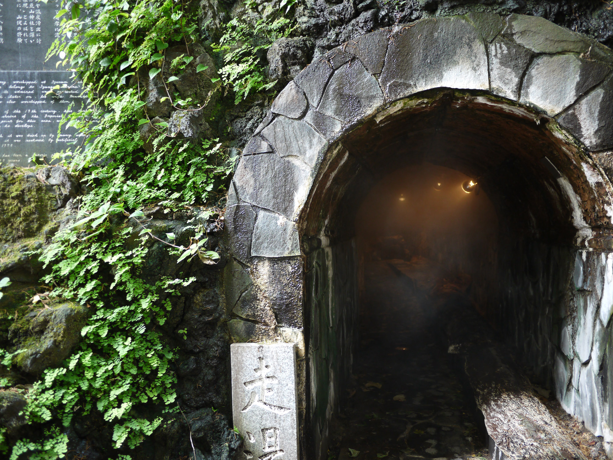 Hashiriyu is a hot springs fountainhead in Atami, Shizuoka Prefecture, Japan.